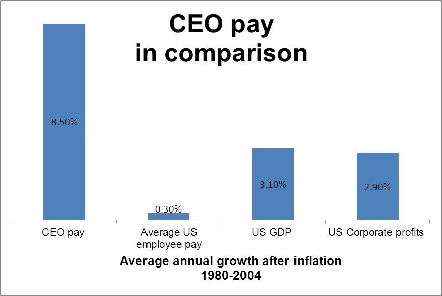 Comparison of CEO pay in the US w/median pay, GDP and Corporate profit growth over the same period.